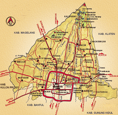 A map of the Sleman Regency, hosted on its official website without any explicit copyright status information, thus falling under article 30 of the Indonesian copyright law.